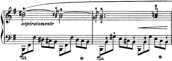 A secondary theme from Nocturne Op 72, No 1